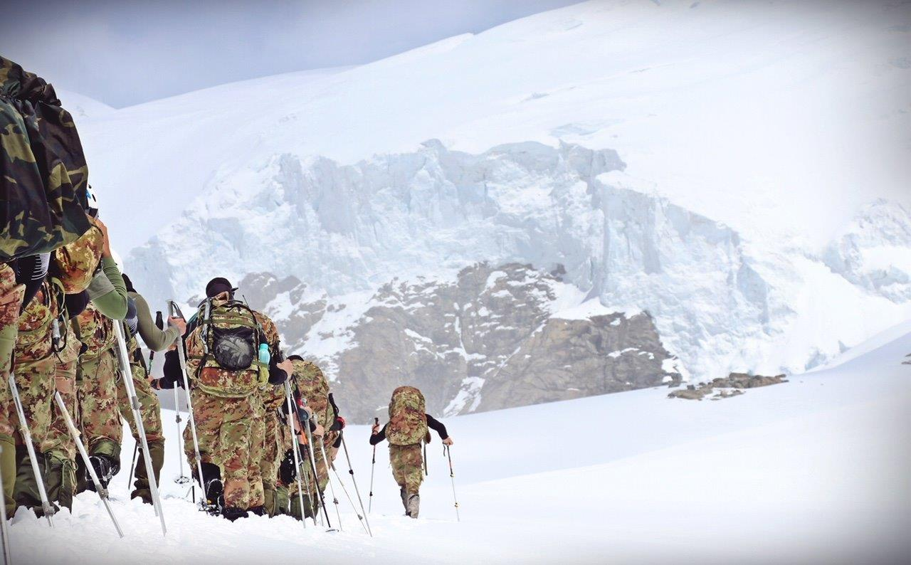 Italian Army 3rd Alpini Regiment soldiers on the way to the summit of Monte Rosa